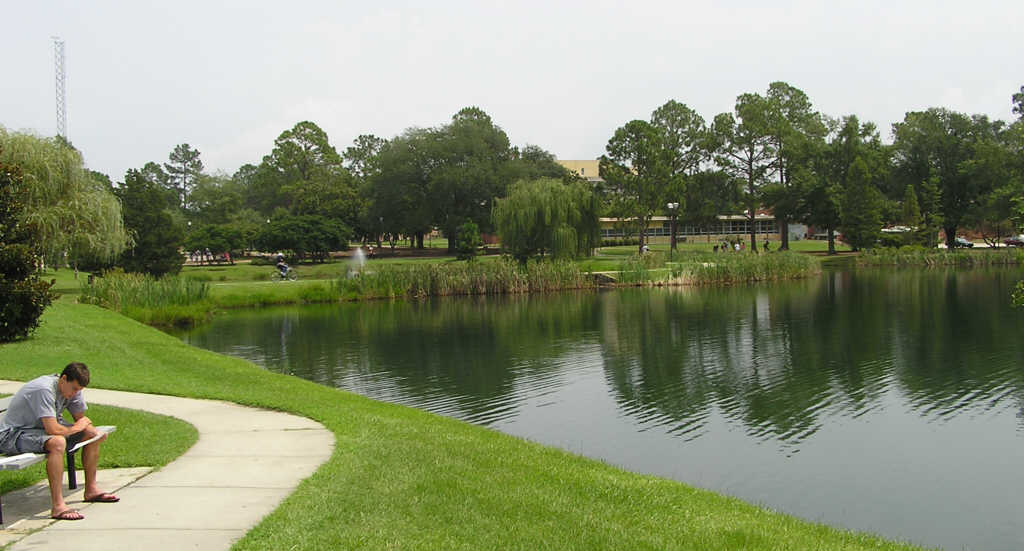 Georgia Southern campus standing on the lake side and looking towards the Russell student center across the lake. Photo taken Richard Chambers, Aug-2004. This is a photo of part of the Georgia Southern University campus looking across the small lake. The tower of the university's student radio station is visible in the left of the image. Straight ahead behind the trees are the Russell Union building containing the student center and the Betty Foy-Sanders building containing the art department. You can see the pedestrium which begins at the buildings housing the College of Education and the College of Nursing goes between the College of Information Technology and the College of Business Administration, between the library and the lake and then curves to the right and up the slope terminating at the Russell Union building.